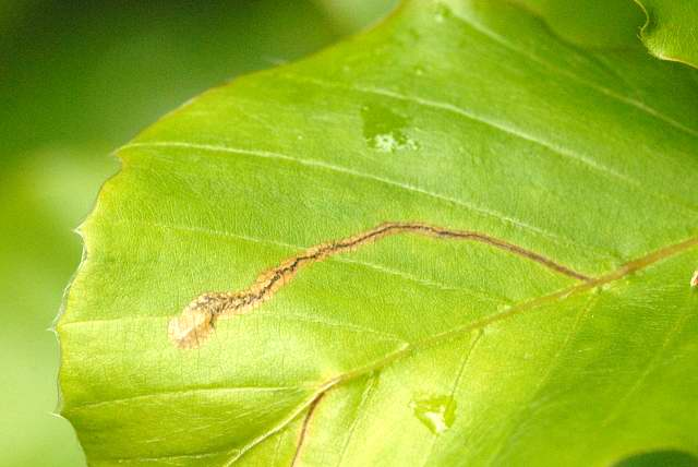 Orchestes fagi from Commanster, Belgian High Ardennes .